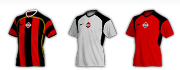 Komplet dresova FK Mačve